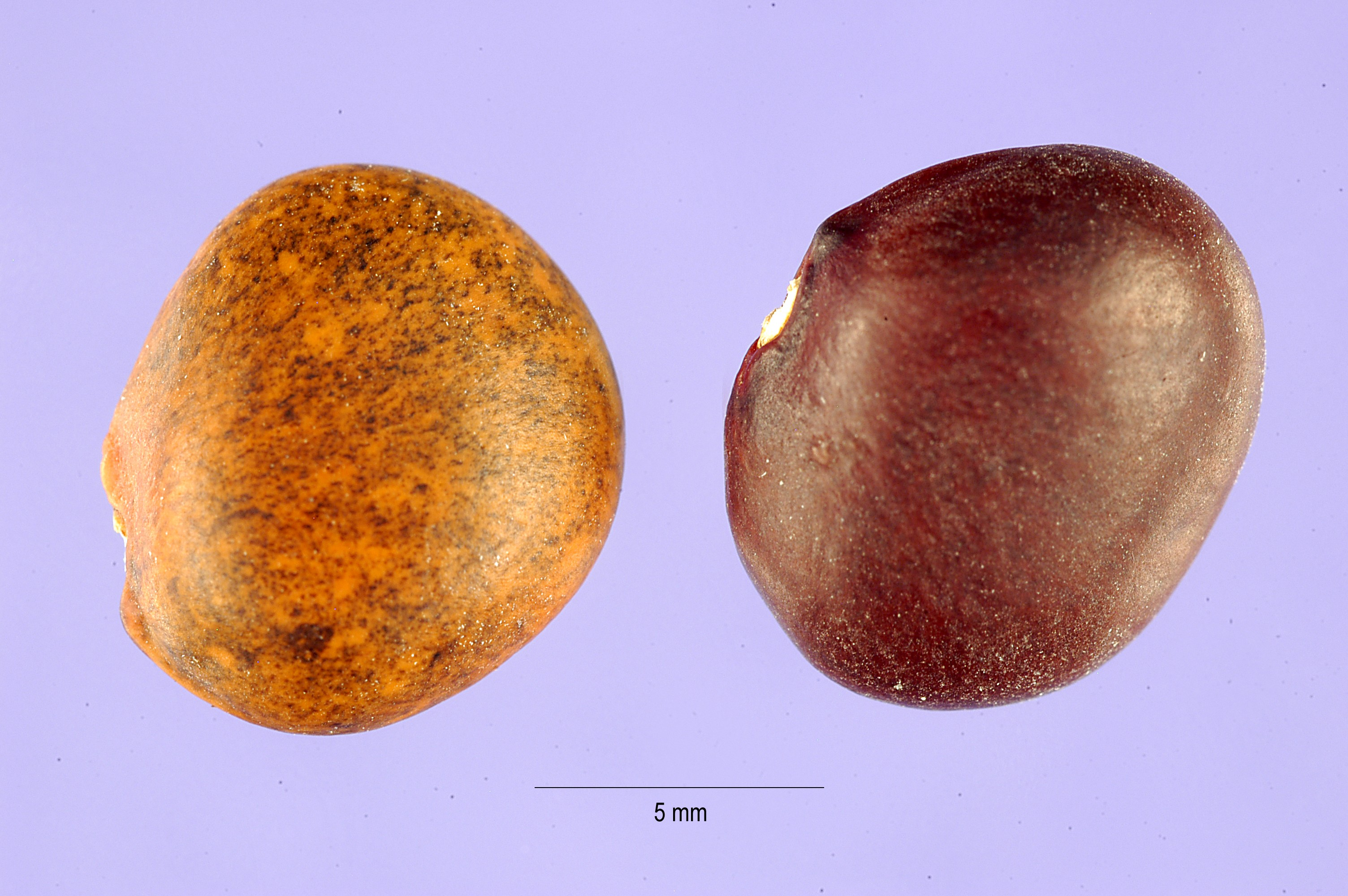 Phaseolus maculatus syn Phaseolus metcalfei from Tracey Slotta. Provided by USDA ARS Systematic Botany and Mycology Laboratory. United States, NM, Silver City.